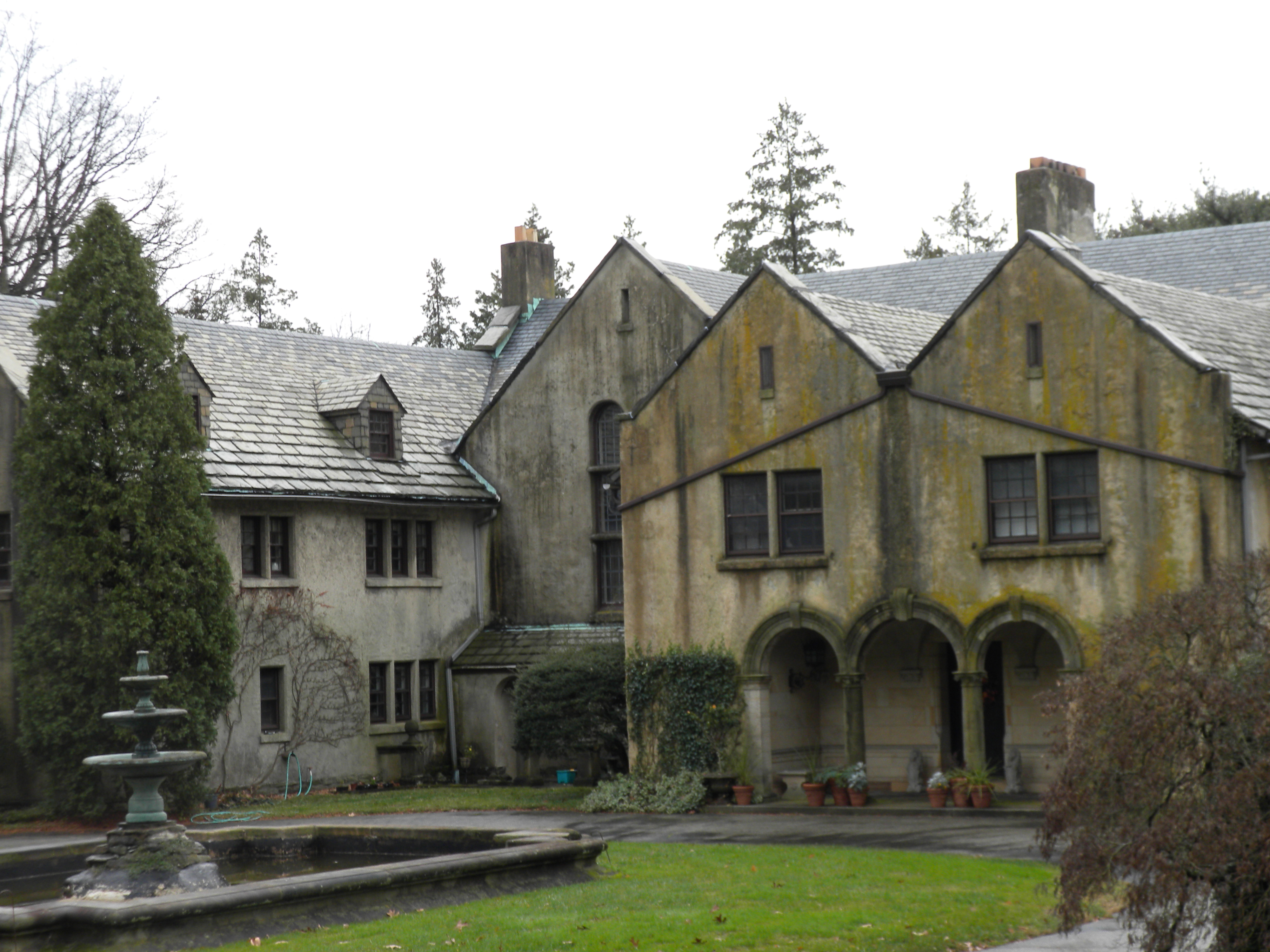 Allgates mansion in Delaware County, PA. On NRHP.